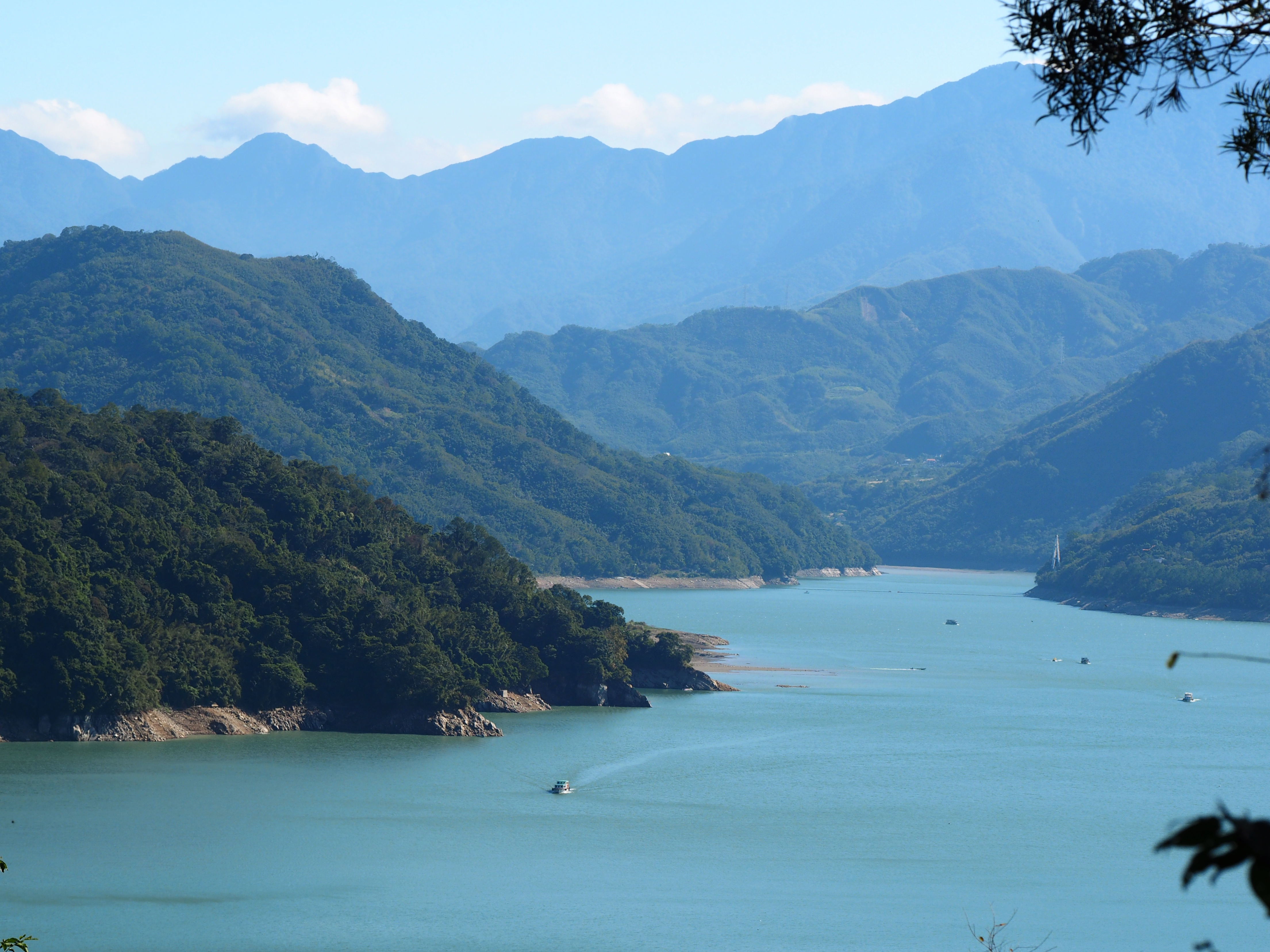 Boats moving on Shimen Reservoir